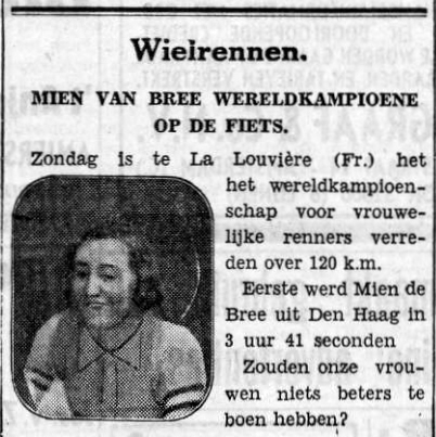 Mien van Bree wereldkampioen op de fiets 22-10-1938